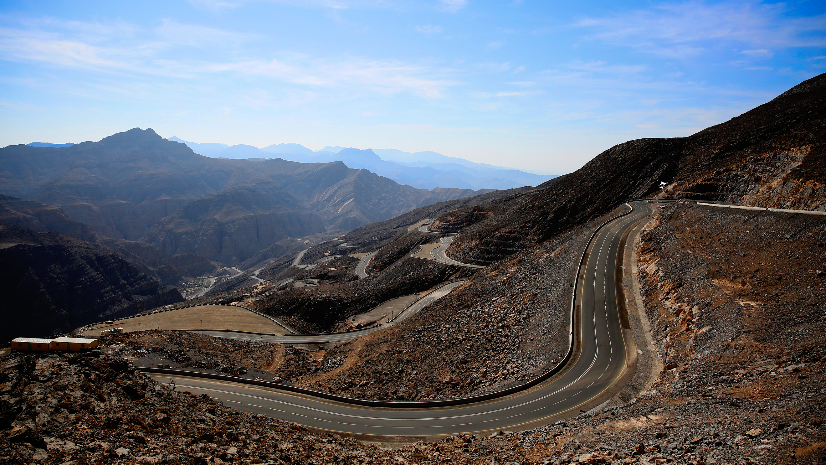 A view from the road up Jebel Jais mountain, Ras Al Khaimah